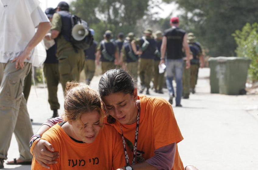 August 17, 2005. A group of residents refuses to evacuate the Israeli community Bedolach. The evacuation of Bedolach was part of the Gaza Disengagement, which took place during the summer of 2005.